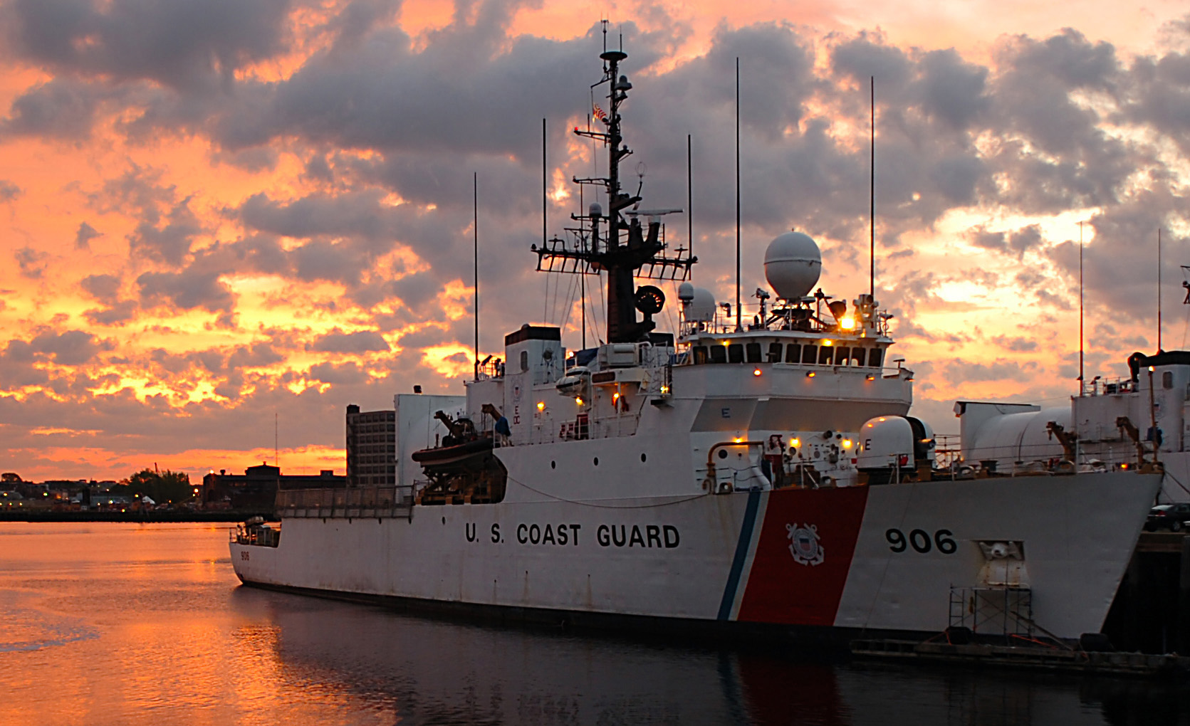 The 270-foot medium endurance Coast Guard Cutter Seneca sits moored at Coast Guard Integrated Support Command in Boston as the sun rises over the city May 16, 2008. The Seneca and its namesake cutter are both rich with maritime history. The original Revenue Cutter Seneca was the first cutter to engage in official ice patrol duties after the RMS Titanic sank in 1912. Shortly thereafter, Seneca was called on to protect convoys from submarine attacks between Gibraltar and Great Britain in World War I. Today, the Seneca, homeported in Boston, continues to carry out law enforcement, search and rescue, alien migration interdiction, and homeland security missions.